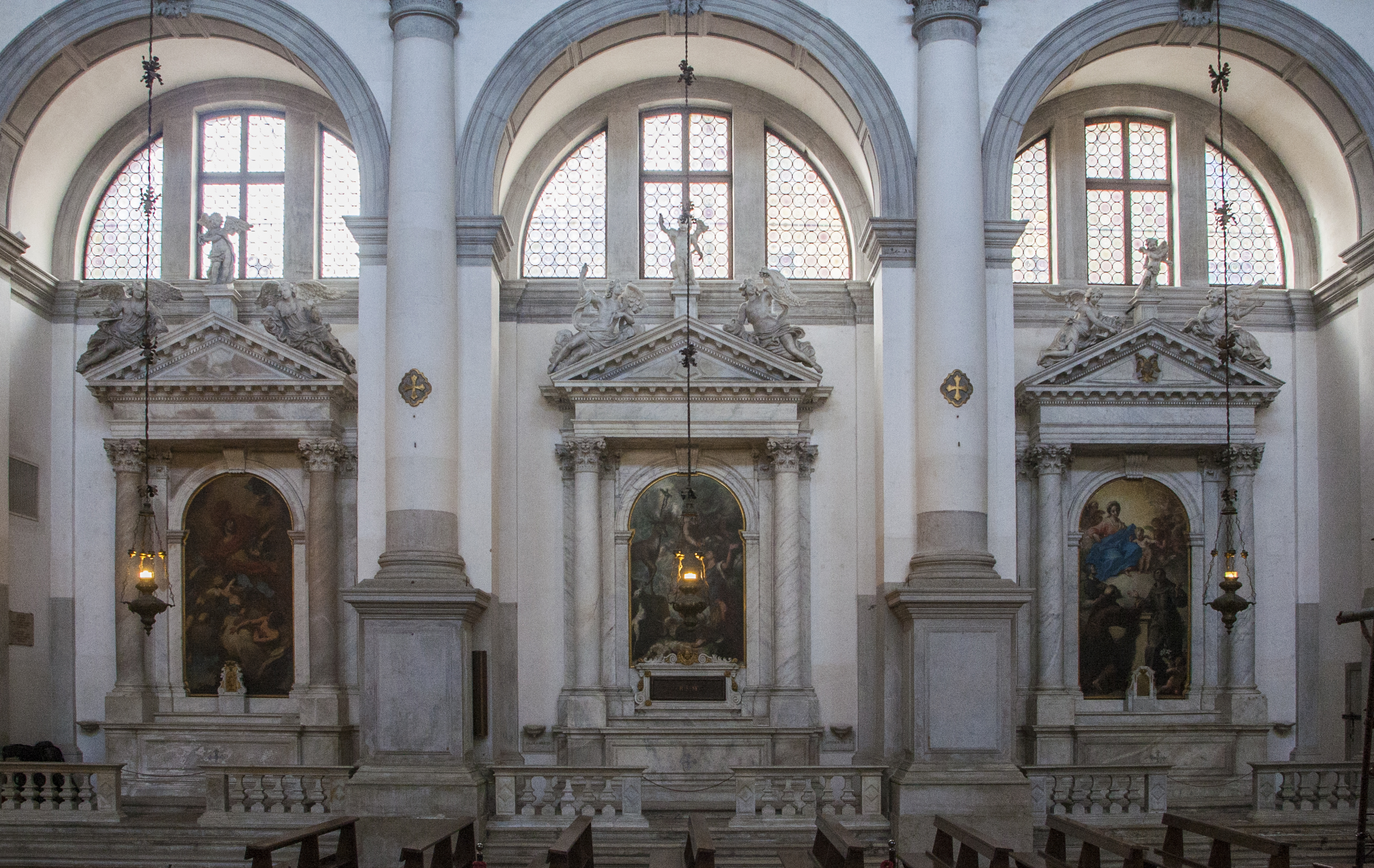 Sanstae, Venice, right side of the nave